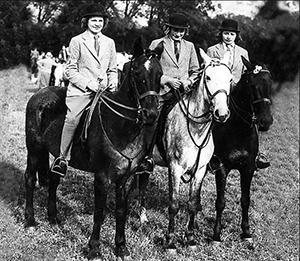 Josephine Pullein-Thompson (left), Christine Pullein-Thompson, Diana Pullein-Thompson] by kind permission of Charlotte Fyfe, daughter of Christine Pullein-Thompson unknown photographer in about 1942